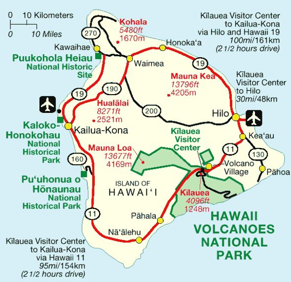 Hawaii national parks map — for the Big island of Hawaiʻi.